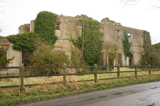 Ballynagall House ruins of the once elegant Ballynagall House, County Westmeath, Ireland